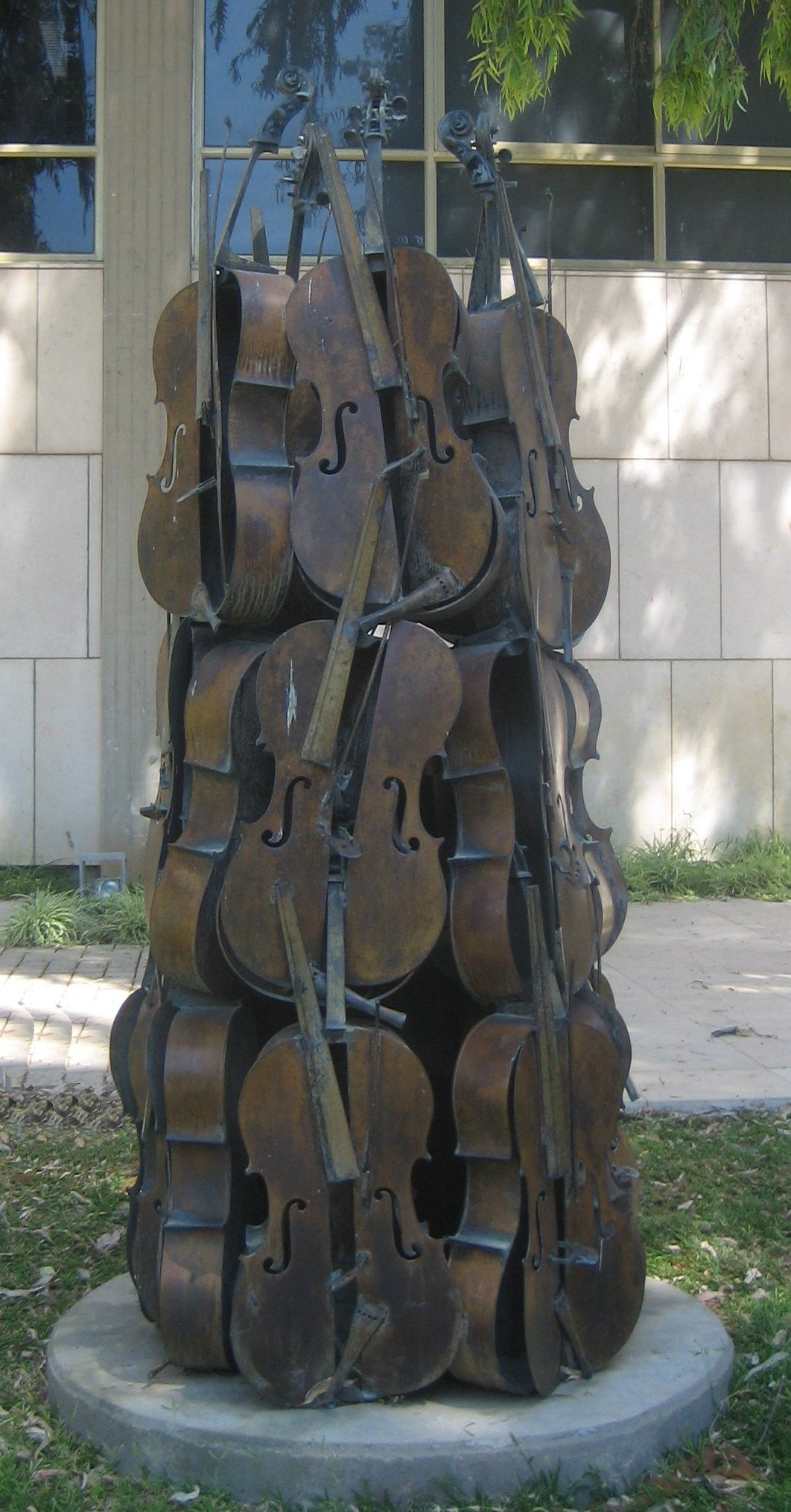 'Music Power No. 2', bronze sculpture by Armand P. Arman, 1986, Tel Aviv Museum of Art, Tel Aviv, Israel